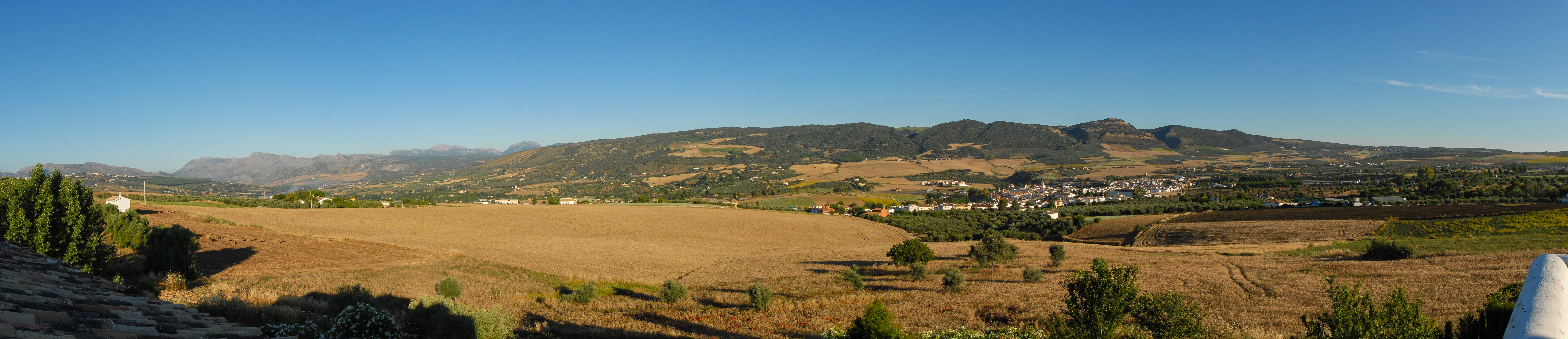 Panoramic view of Arriate and surrrounding area, in Málaga province, Spain.